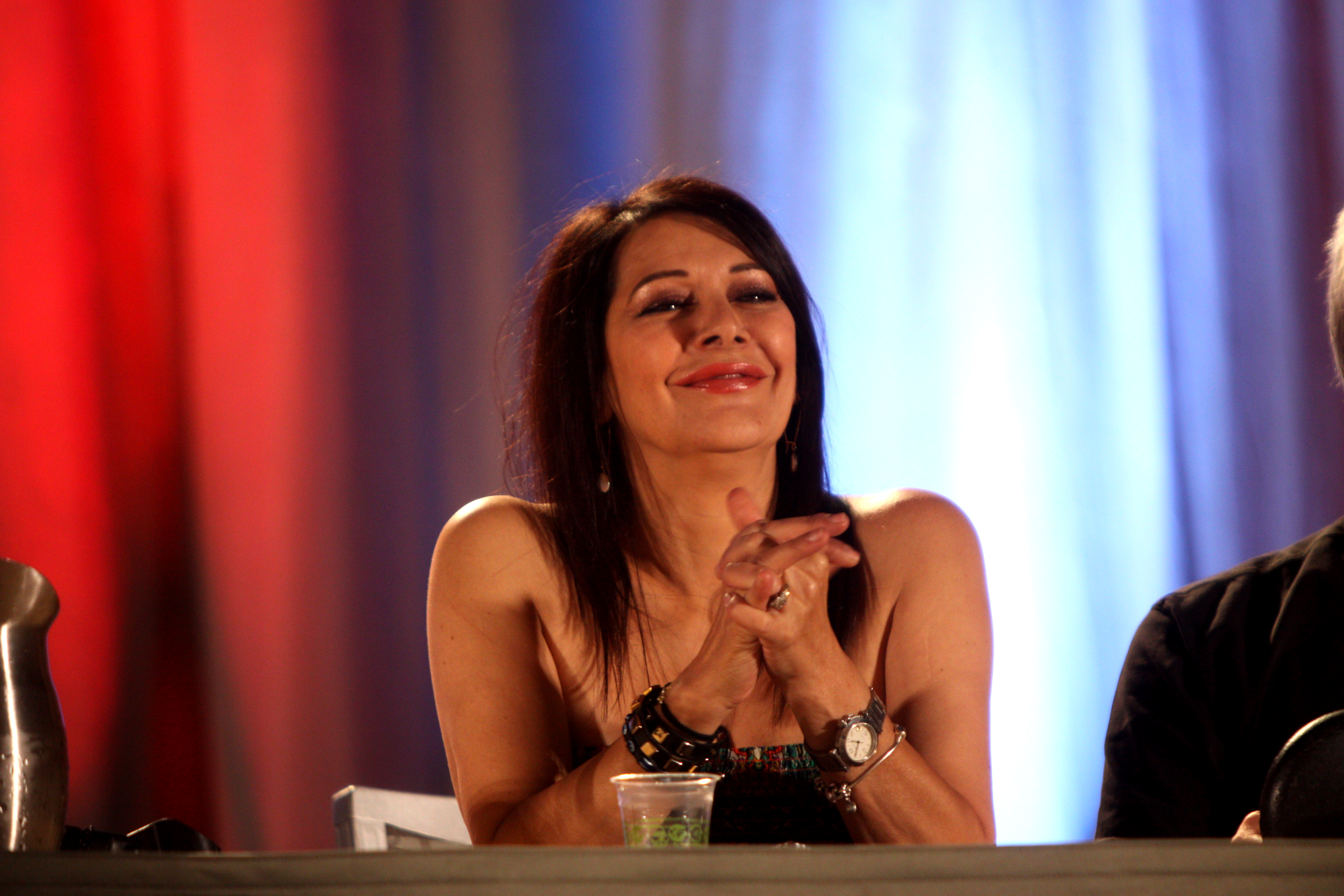 Marina Sirtis speaking at the 2012 Phoenix Comicon in Phoenix, Arizona.